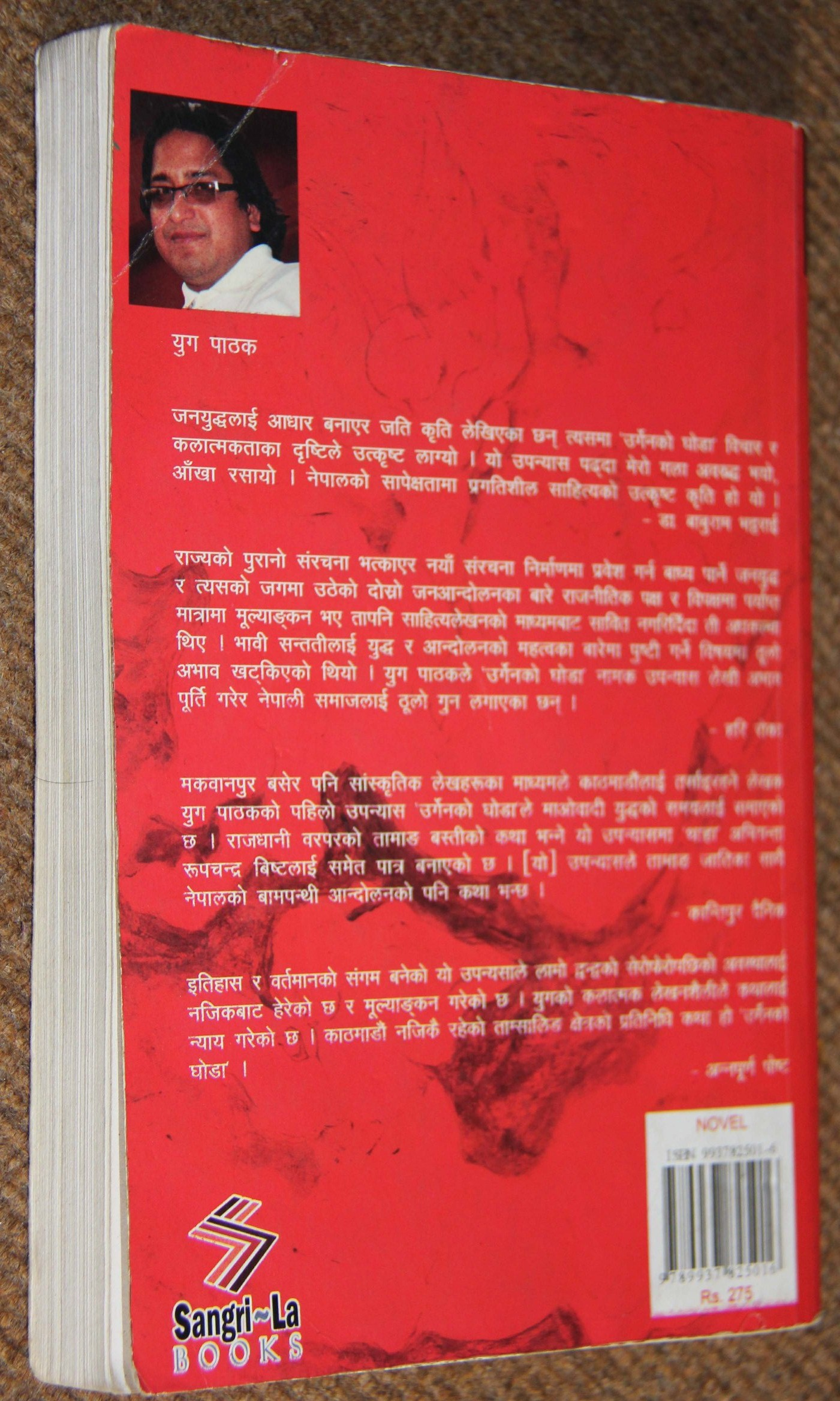 This is the back cover of the famous Nepali Novel Urgenko Ghoda by Yug Pathak